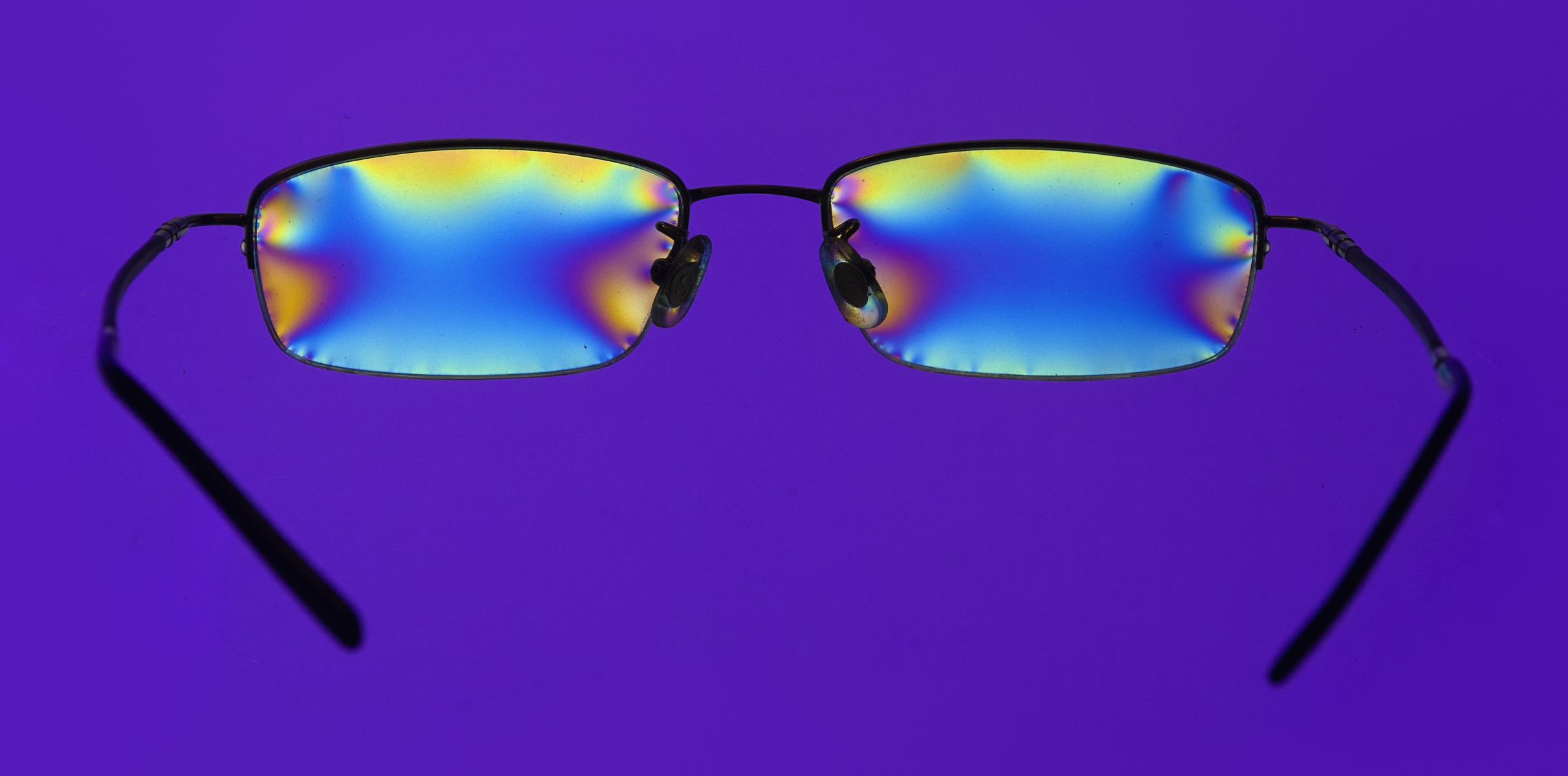 Stress in a pair of plastic glasses made visible by placing it between two polarizers